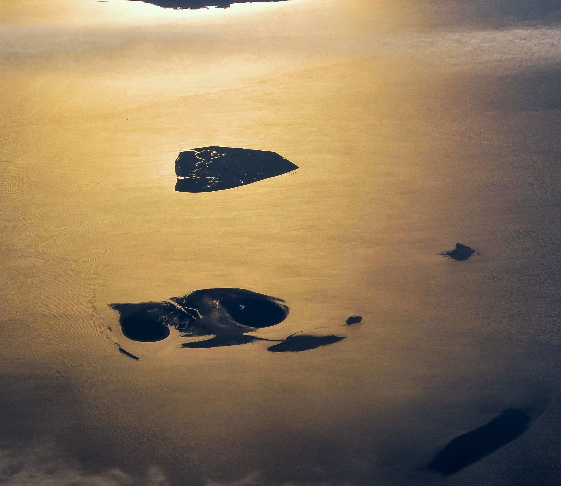 Aerial picture of the Hamburg Wadden Sea National Park (German: Nationalpark Hamburgisches Wattenmeer). This park is an exclave of the city state of Hamburg and lies 12.5 km off Cuxhaven in the estuary of the Elbe in the North Sea. The park includes the islands of Neuwerk (above), Scharhörn and Nigehörn (below, appearing as a single island in this picture taken at low tide). The two other islands (right and below right) are parts of the Scharhörn and Neuwerk mudflats (Scharhörner und Neuwerker Watt). Viewing direction is toward the SE.